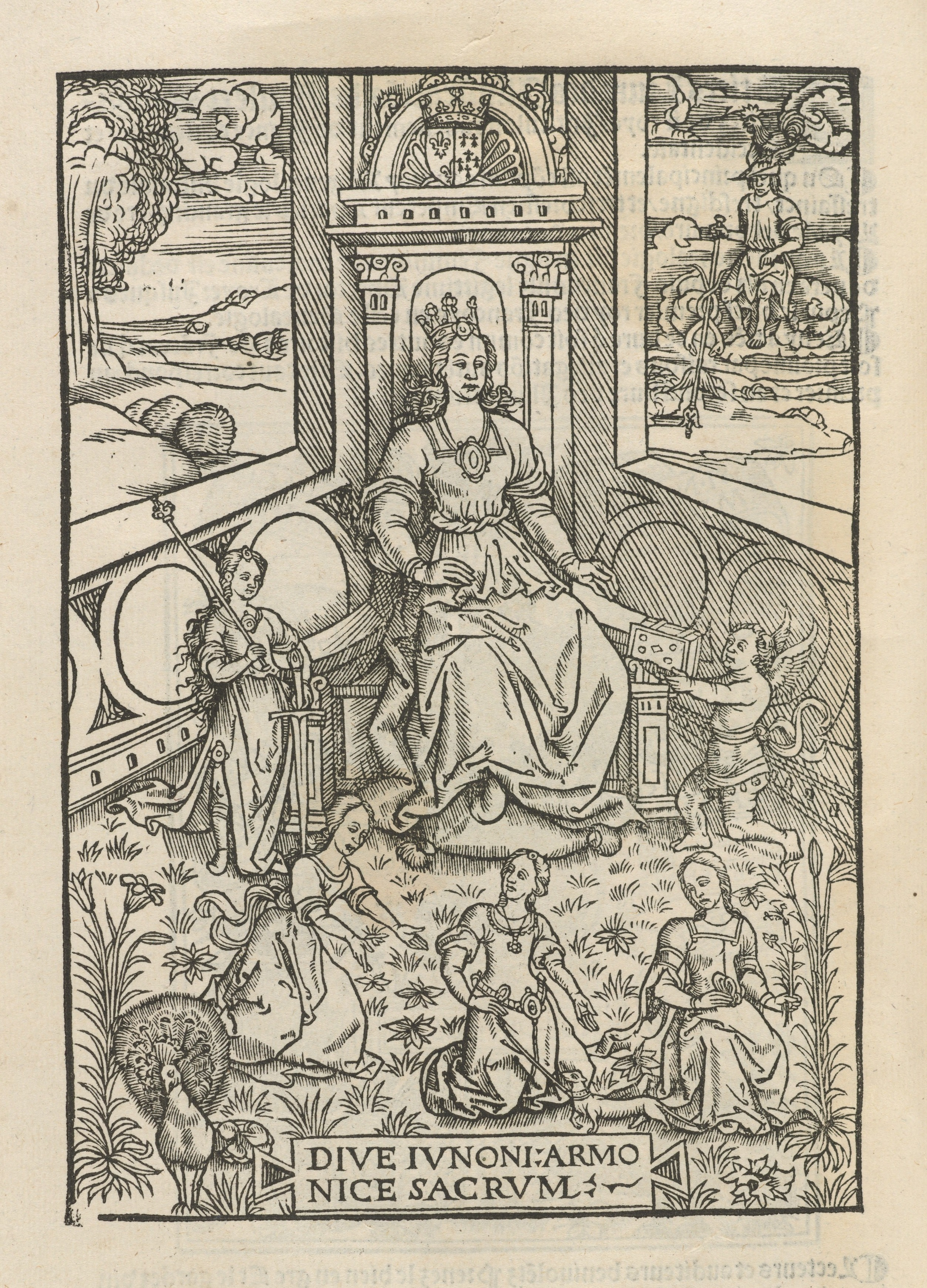 Page from Les illustrations de Gaule et sĩgularitez de Troye, 1512, by Jean Lemaire de Belges (c. 1473 - c. 1525). Typ 515.12.515, Houghton Library, Harvard University